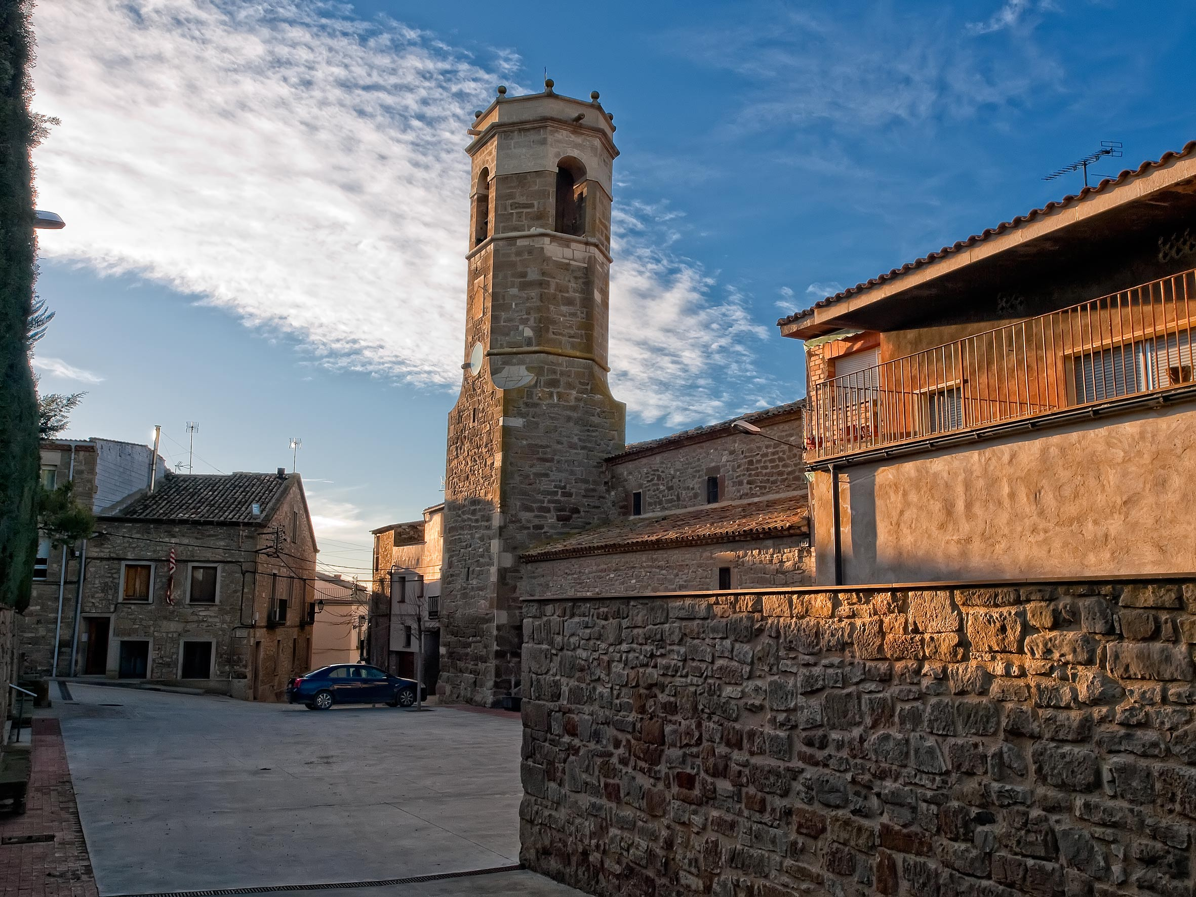 Sant Salvador church of Massoteres (Catalonia, Spain)